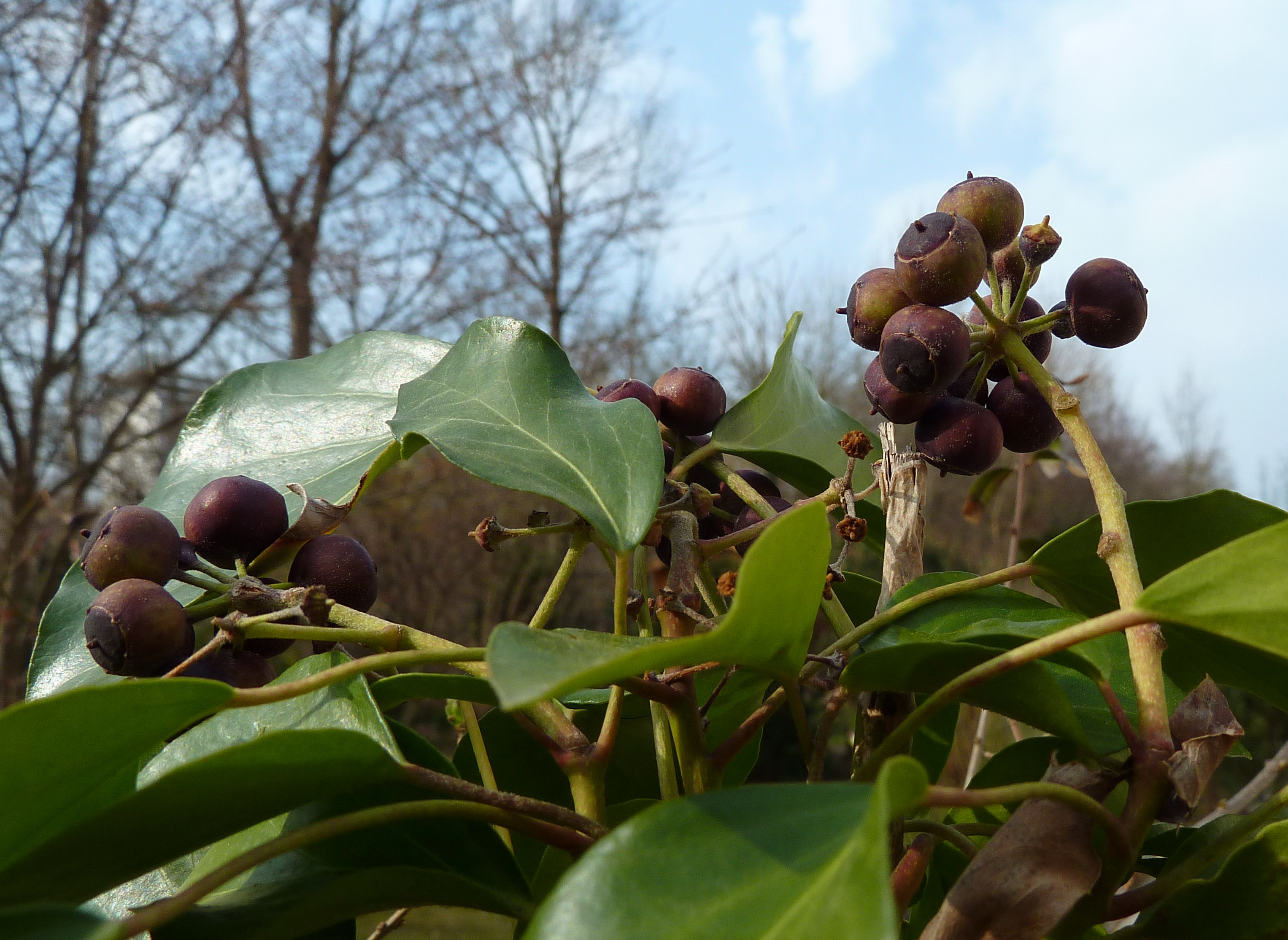 Ivy with berries